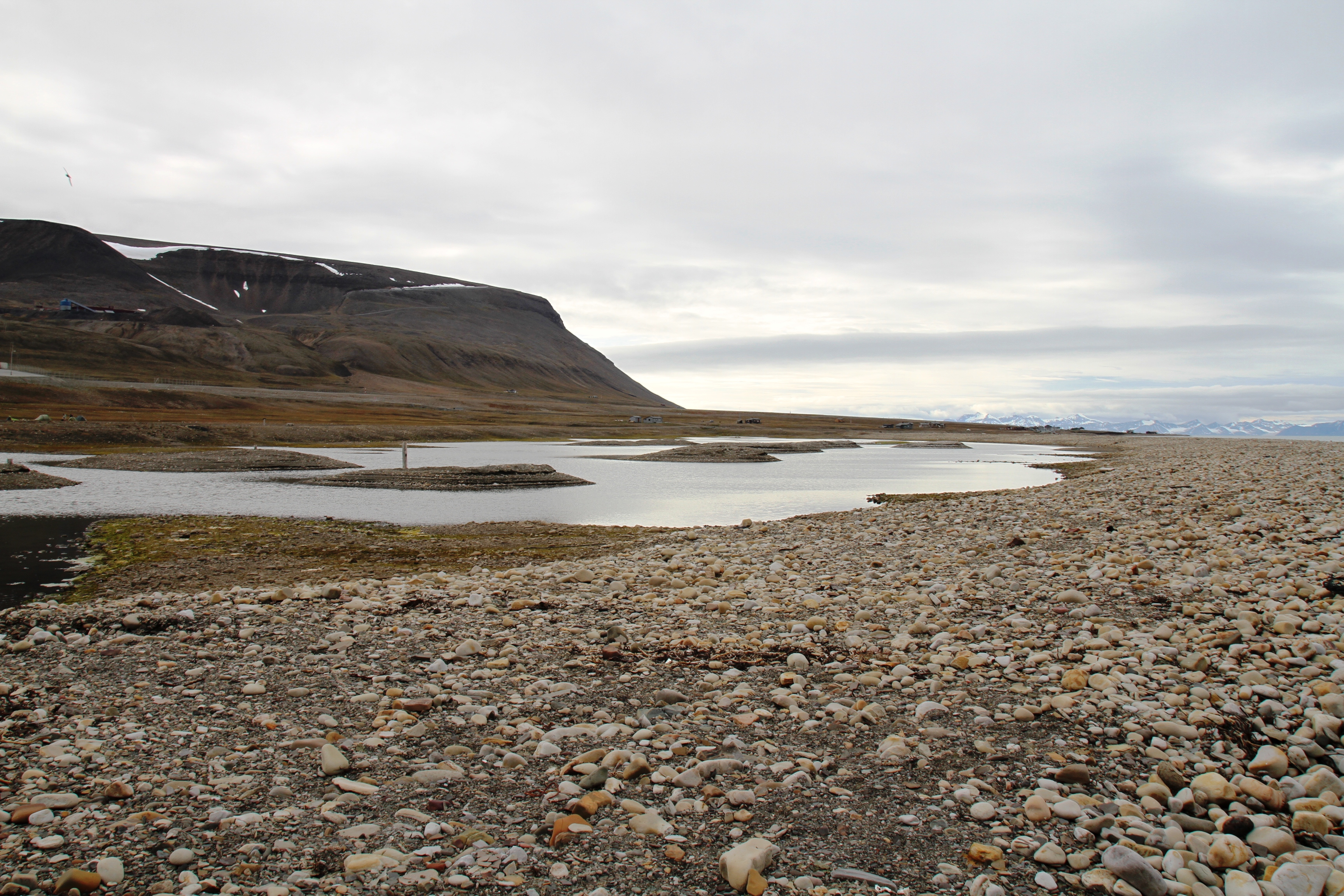 Lagunen bird preserve area just west of Longyearbyen, by Svalbard Airport at the Hotellneset.